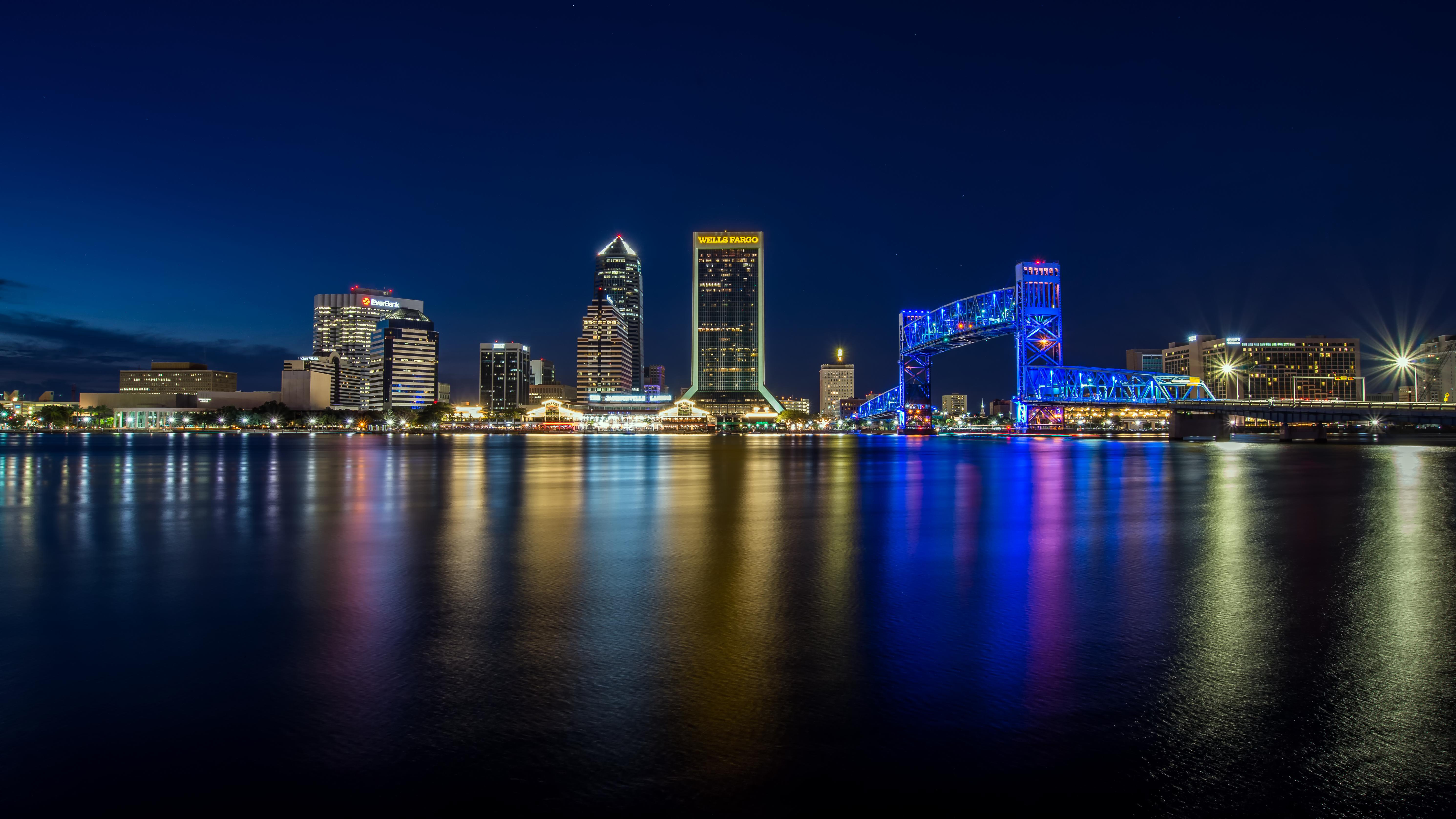 Long Exposure photograph of the downtown Jacksonville florida night skyline as seen from the riverwalk.